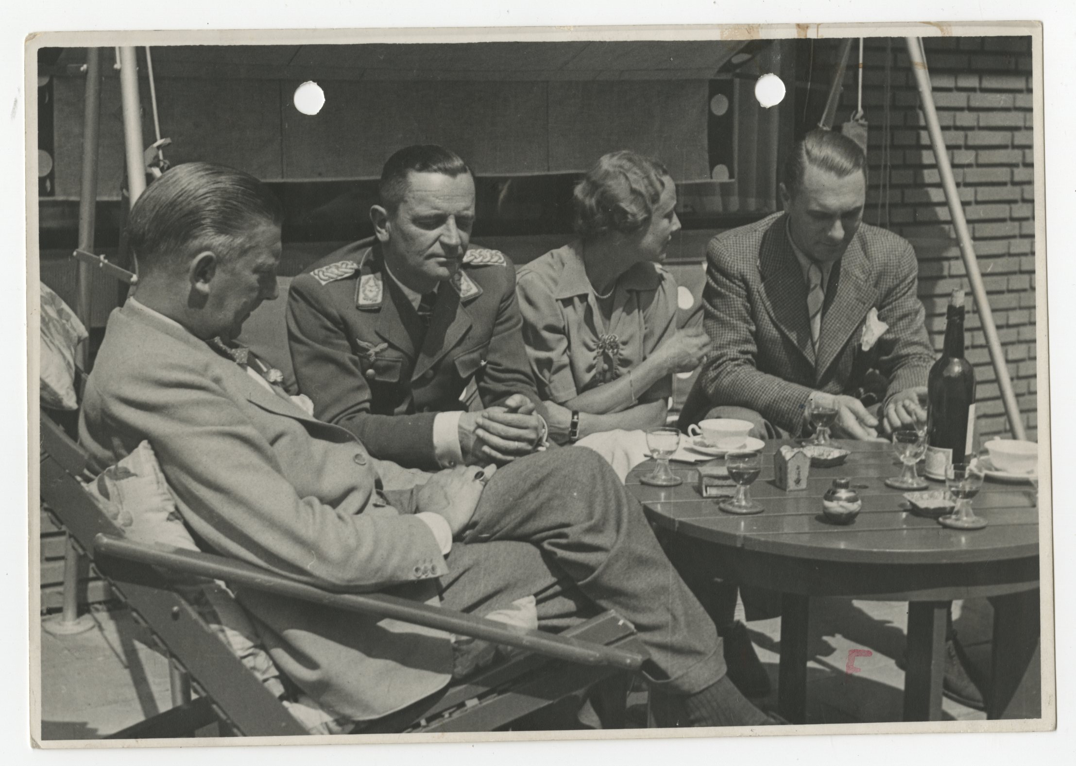 Captain Lieutnant Strauch (left) in company